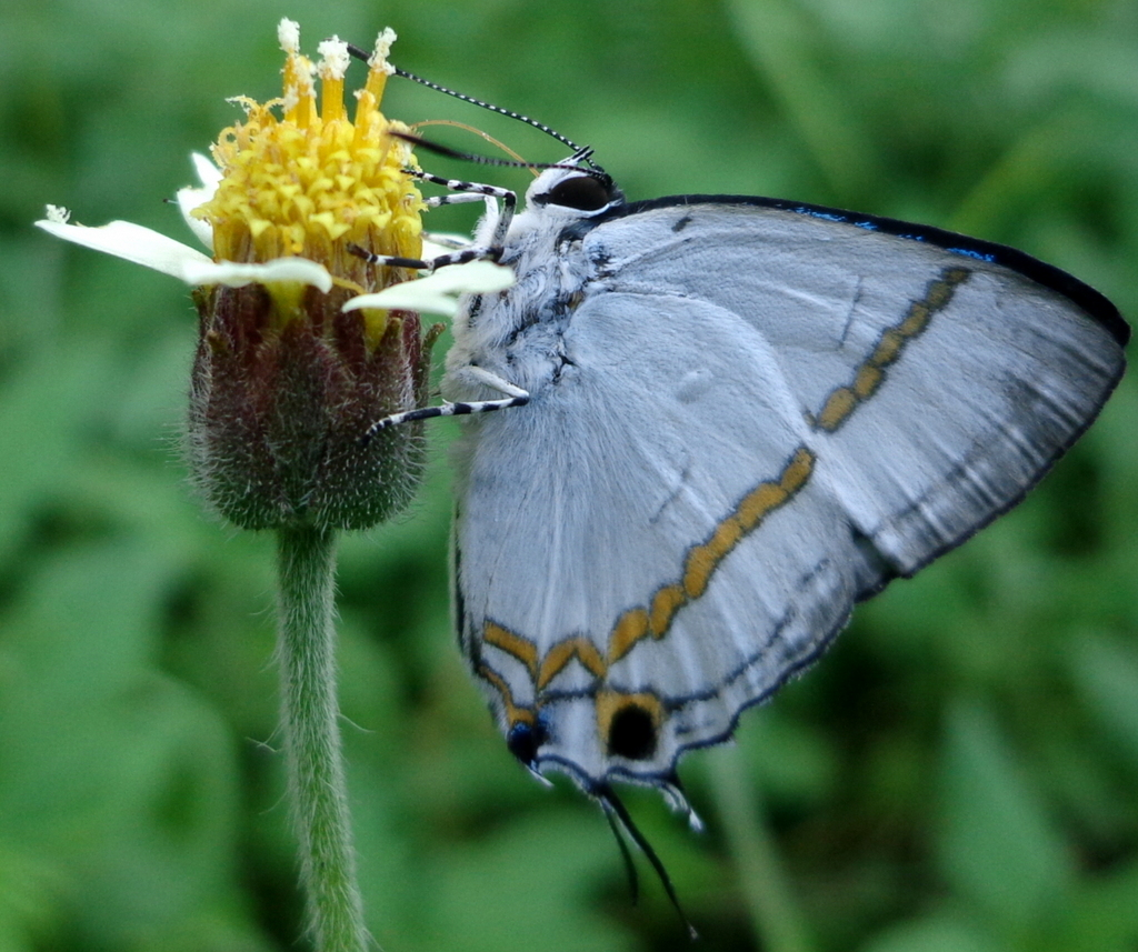 Paradeudorix eleala, feeding off flower of weed plant (Tridax procumbens)